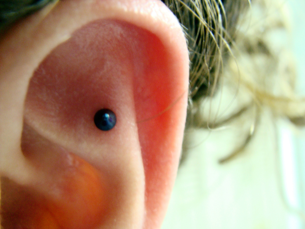 Upper conch piercing